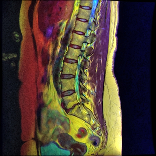 Lumbar MRI T1W FSE in Red channel, T2W frFSE in Green channel, STIR in Blue channel